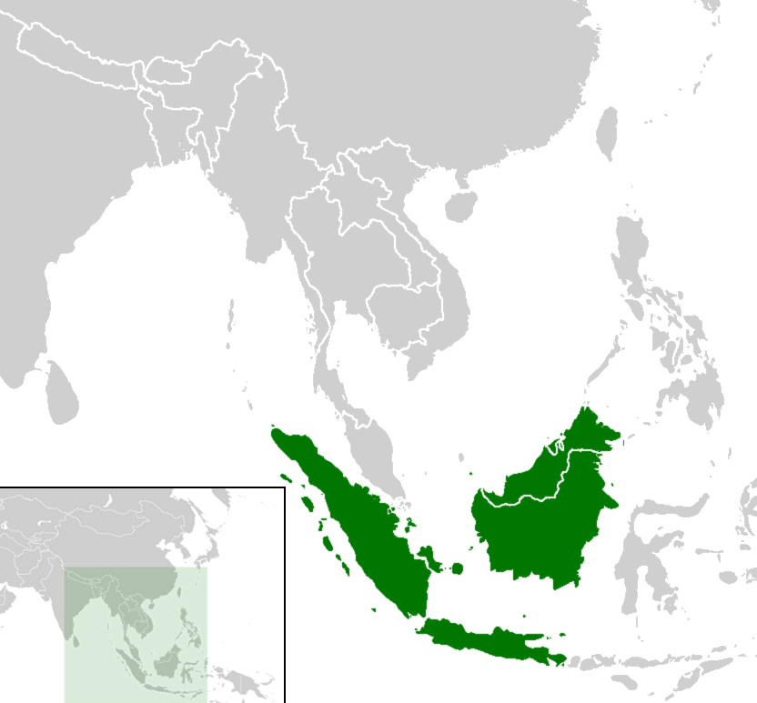 Asia Blank map